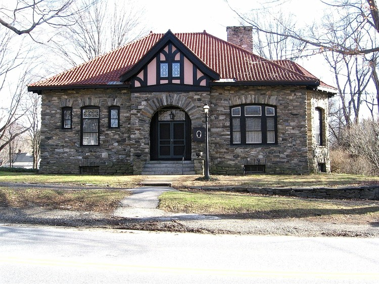 Ellen Larned Memorial Library, Thompson, CT. Part of the Thompson Hill Historic District.